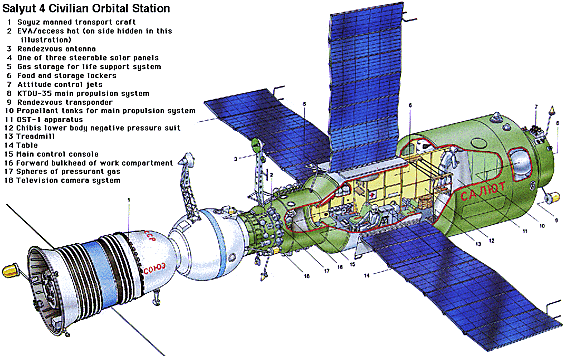 A diagram showing the orbital configuration of the Soviet space station Salyut 4 with a docked Soyuz 7K-T spacecraft.